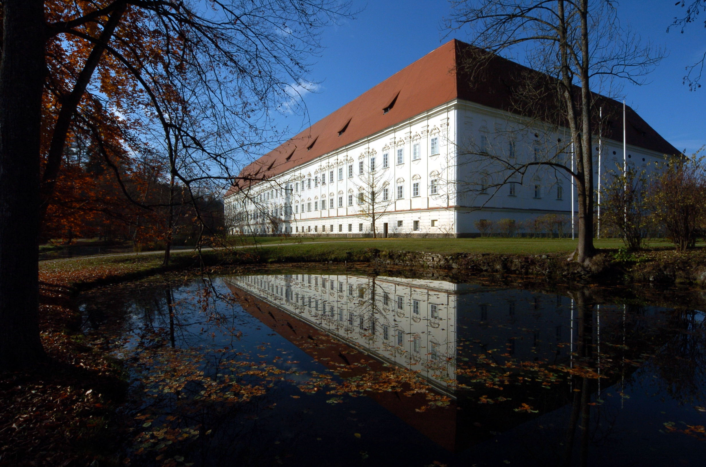 Southeastern view at the cistercian monastery Viktring in Klagenfurt on the Lake Woerth, Carinthia, Austria